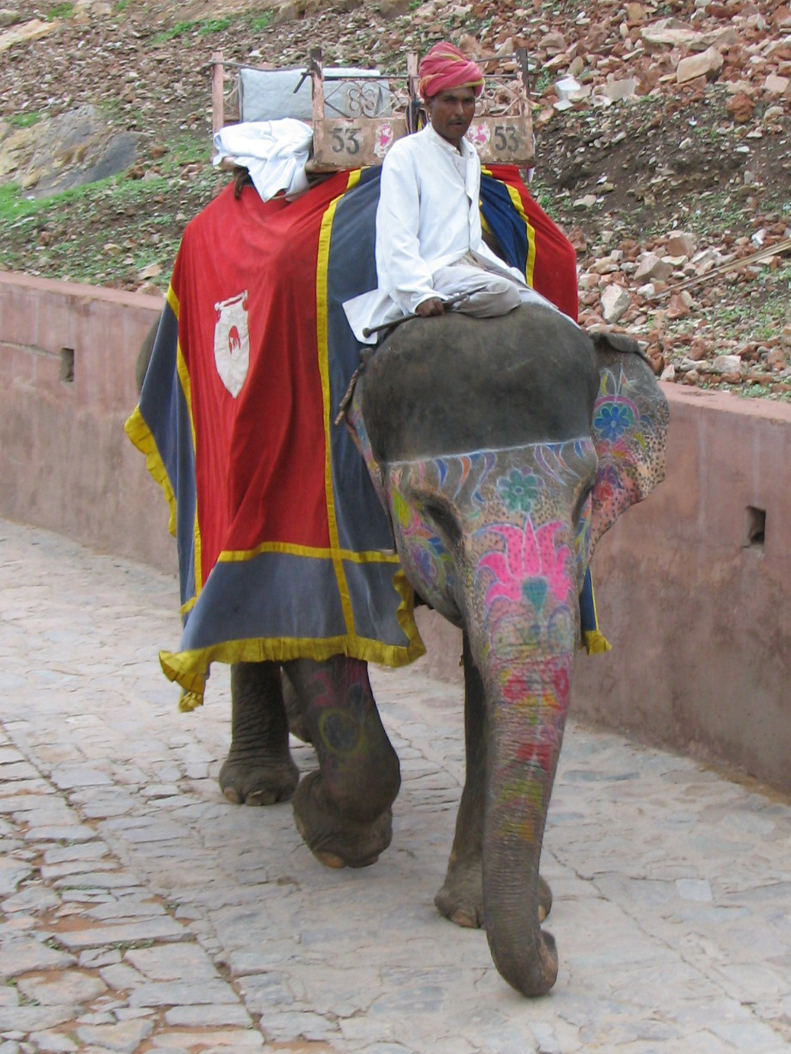 An elephant painted and dolled up to ferry tourists up and down the path up to the Ambur Fort in Jaipur. The elephants were reported to be well taken care of by their drivers, who devote and spend their lives with these creatures.